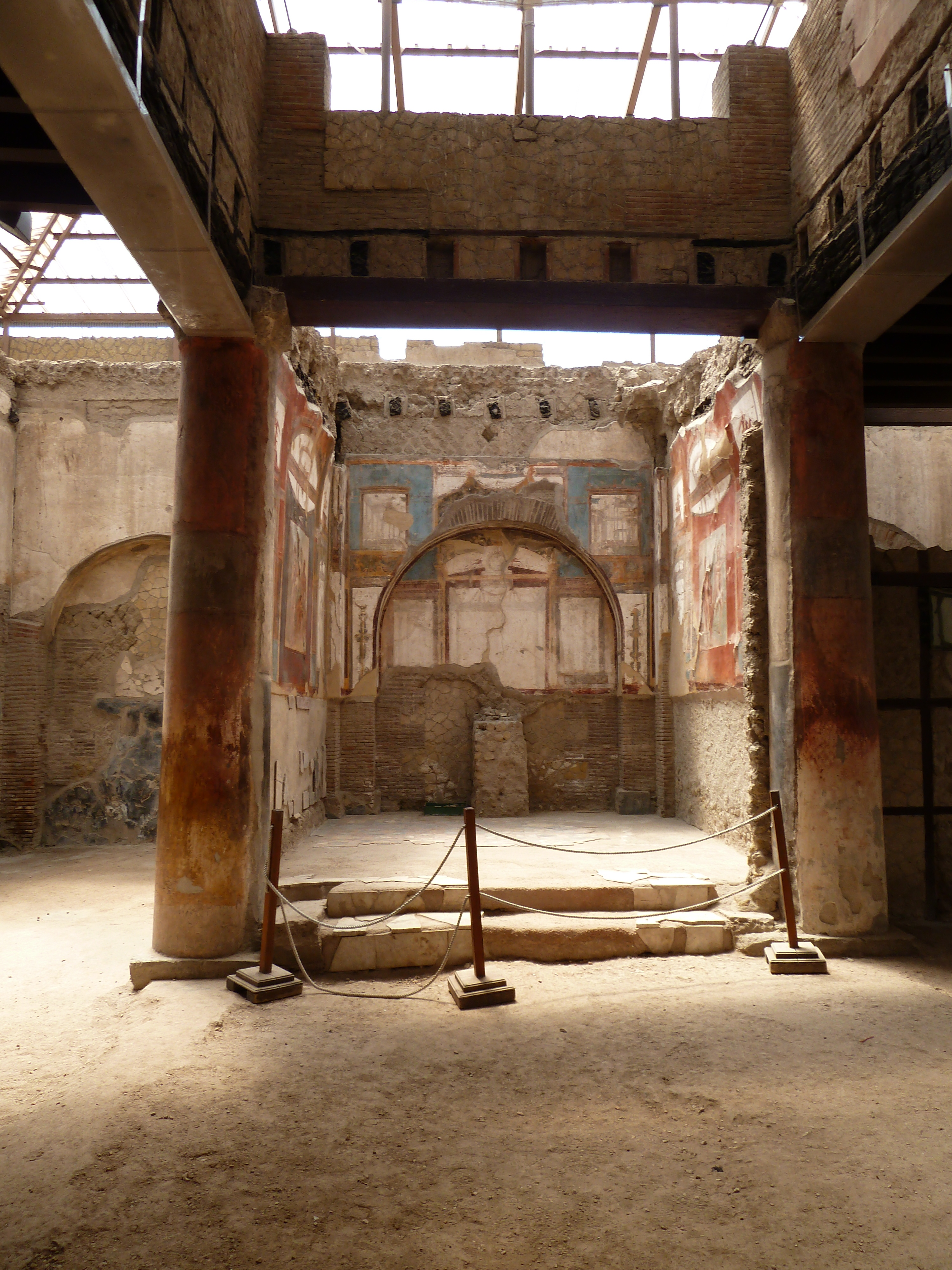 Sacello degli Augustali (Ins VI). Shrine (sacellum). This building was the center of a cult worshiping the Emperor Augustus.